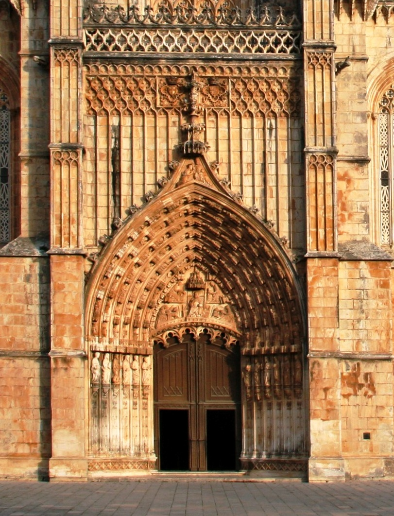 Santa Maria da Vitória na Batalha, more commonly known as the Batalha Monastery, is a Dominican monastery in the Portuguese town of Batalha, in the District of Leiria, Portugal.